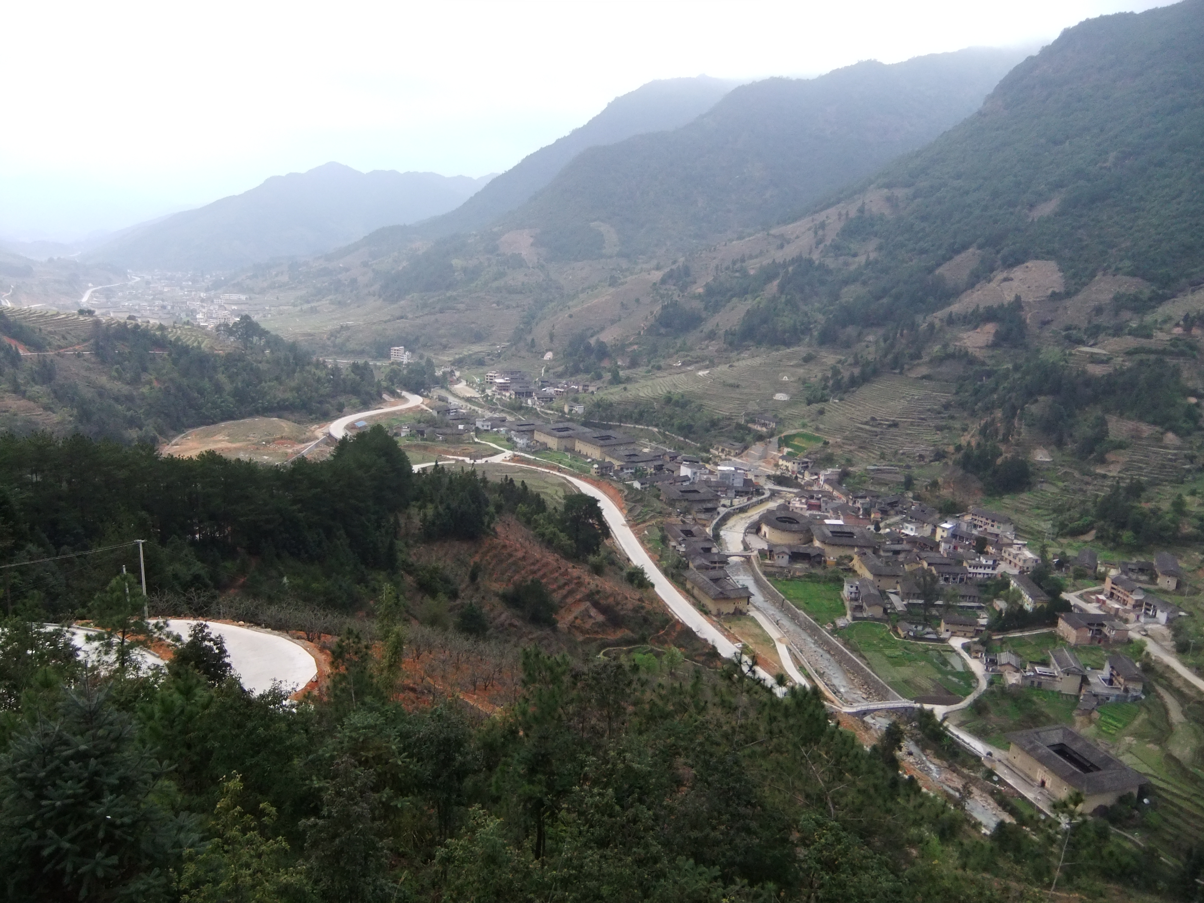 The Nanjiang Village in Hukeng Township, part of the "Great Wall of Tulou", seen from the observation tower on a mountain to the west of it. Looking roughly NE or E